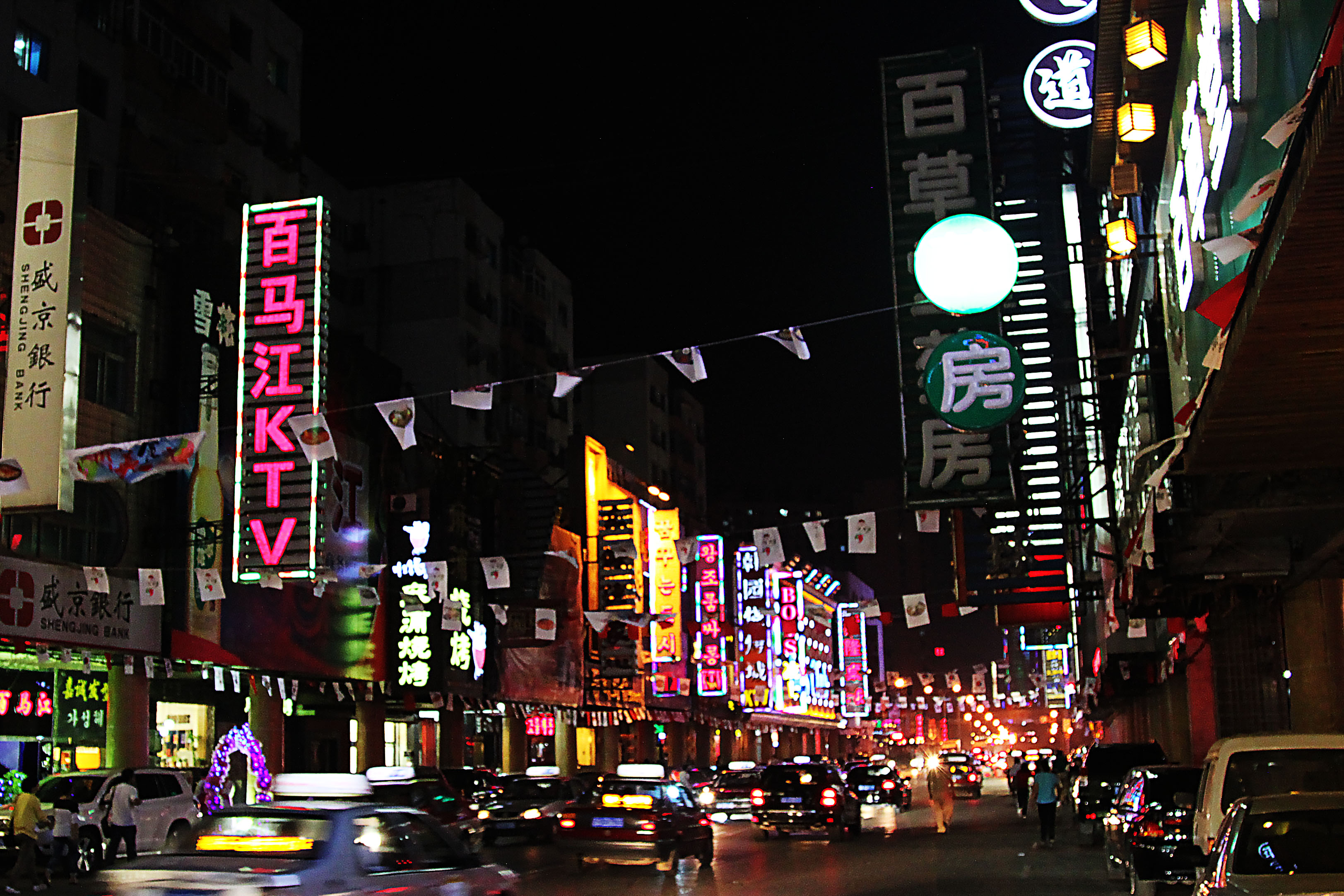 Shenyang Xi Ta (West Pagoda) Street. World's second largest Koreantown.